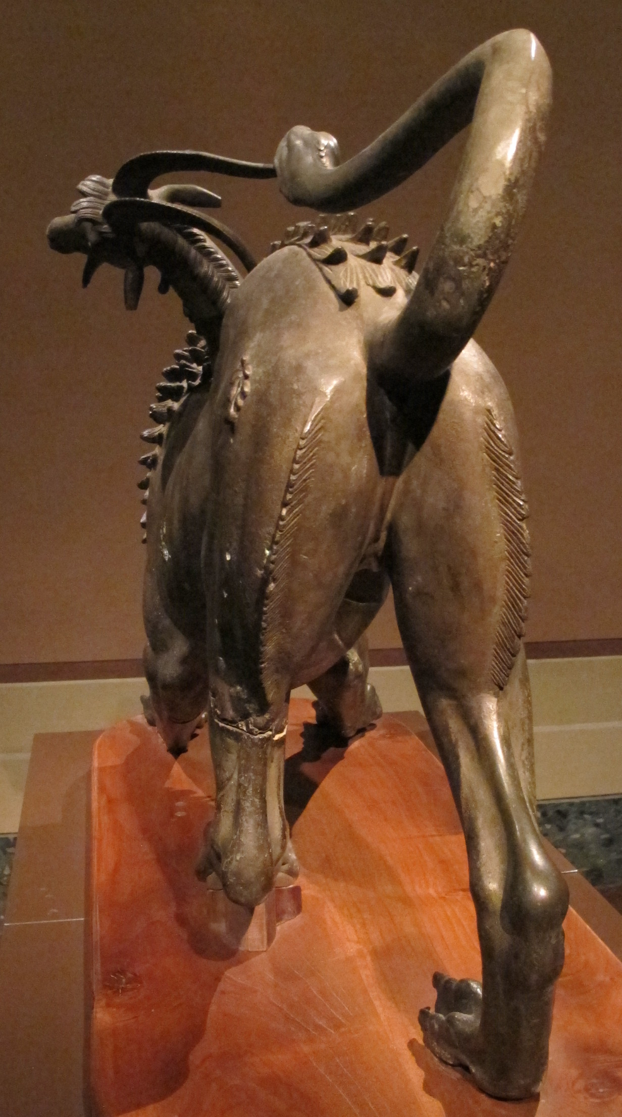 Etruscan bronze statue depicting the legendary monster. It was originally part of a group with Bellerophon and Pegasus. On the right leg is engraved the dedicatory inscription to Tinia.